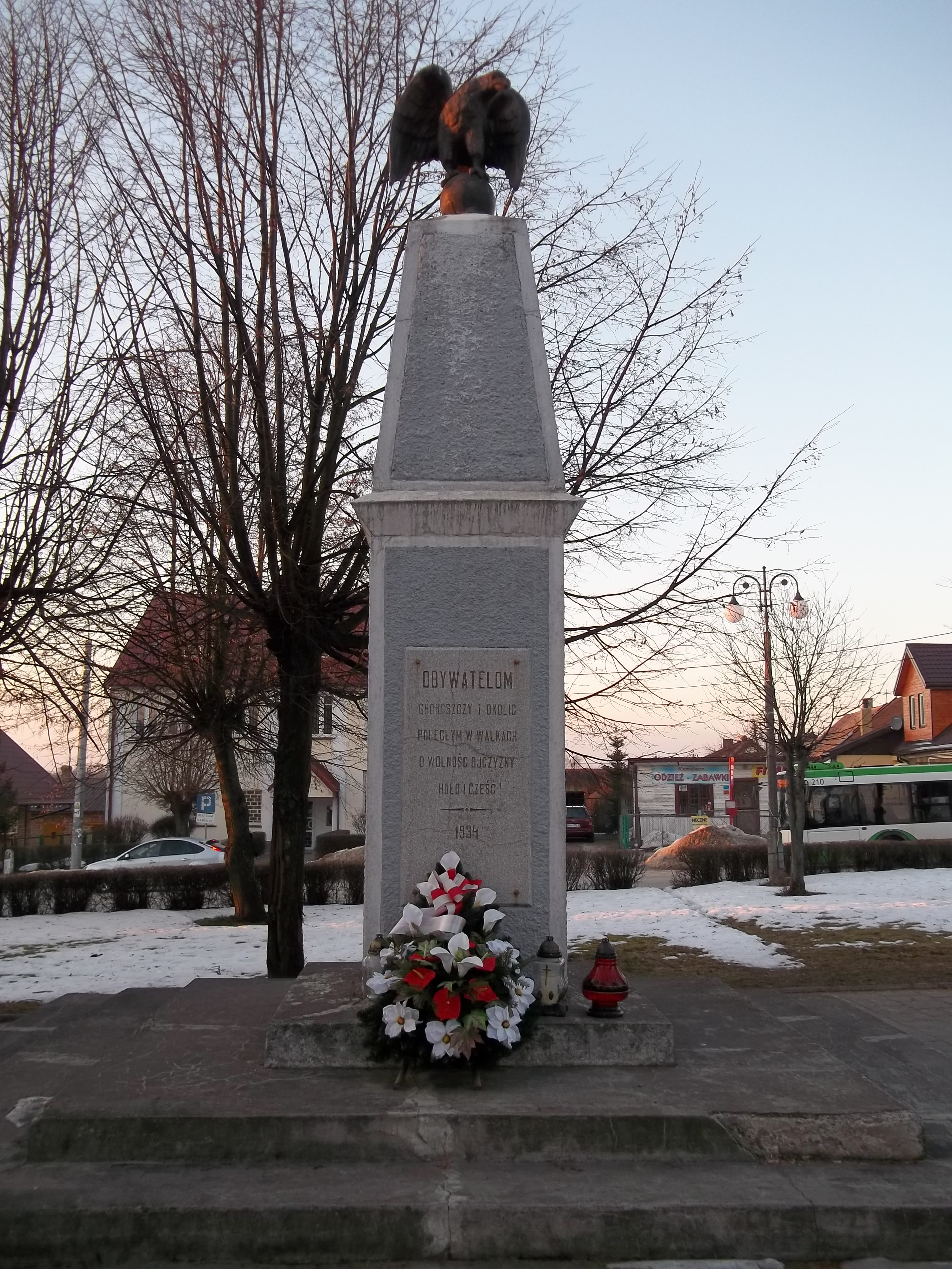 Monument to those who died fighting for the freedom of their homeland - 1934.